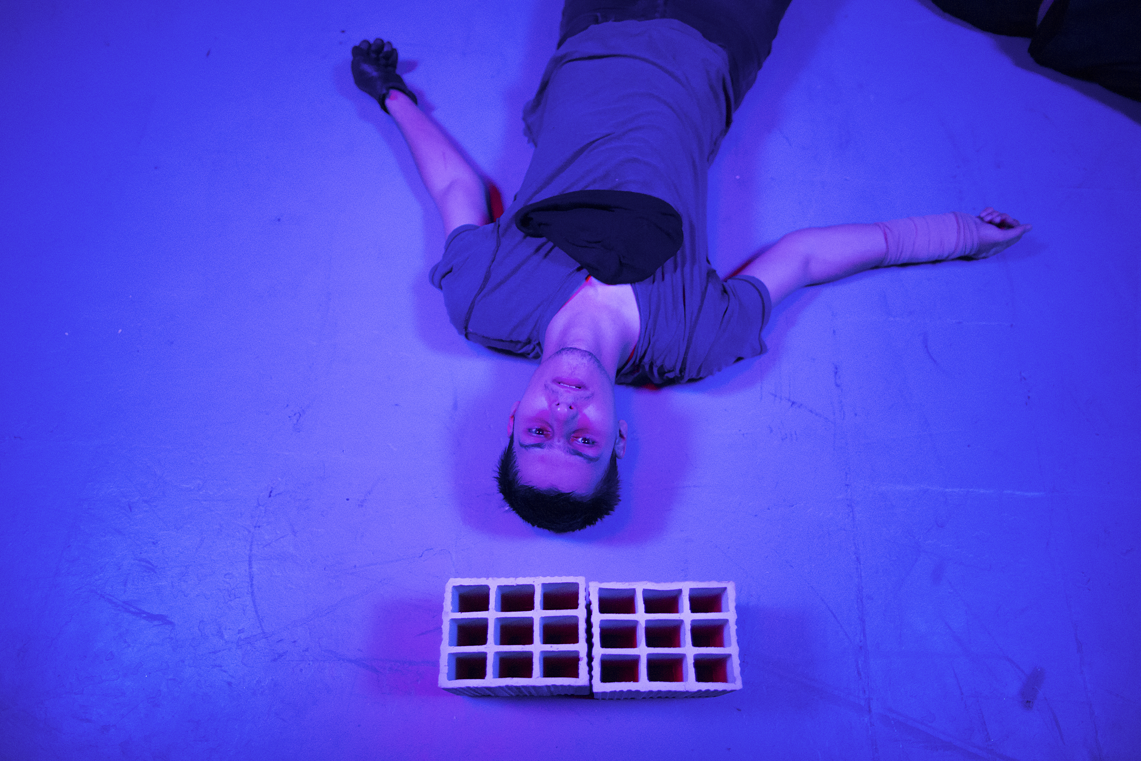 “Hamlet” is a laboratory performance and Garage Theater’s latest research into the field of dramatic performance: rewriting Shakespeare’s Hamlet. The first version of this performance was created after one year of practice and rehearsals. Hamlet had its premiere in Qom. This work is continuously being developed. Garage’s Hamlet is disturbing the tranquillity, not fearing the unseen, and coping with the fault-finding eyes of the public. “Fighting, fighting, fighting, fighting, attacking, squashing someone’s bones, breathing heavily in the smell of blood…” In a part of Shakespeare‘s play, Hamlet, regarding plays and the necessity of their existence, says: Is it not monstrous that players, but in a fiction, in a dream of passion, could force their soul so to their own conceit that from her working all their visage wann’d, tears in their eyes, distraction in their aspect, a broken voice, and their whole function suiting with forms to their conceit? And all for nothing! The players cannot keep counsel; they’ll tell all.